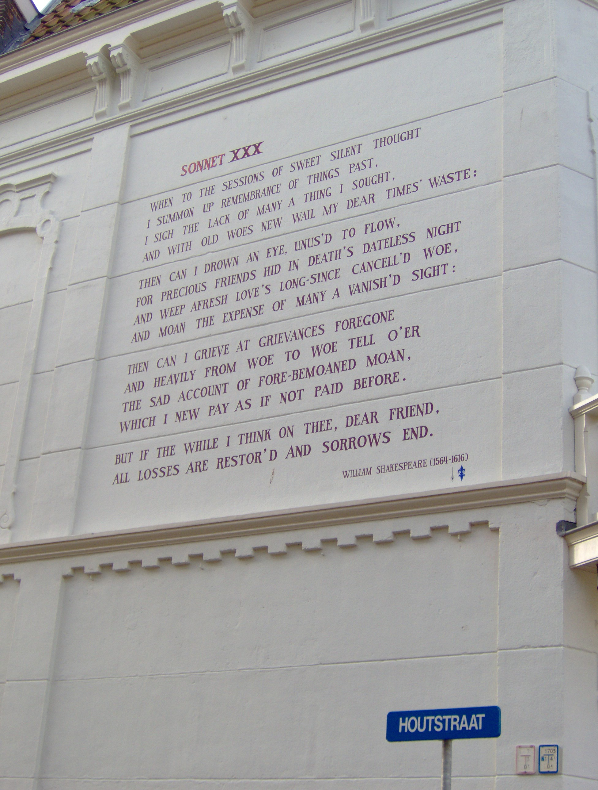 Sonnet XXX of William Shakespeare on a wall of the building at Rapenburg 30, Leiden, The Netherlands.